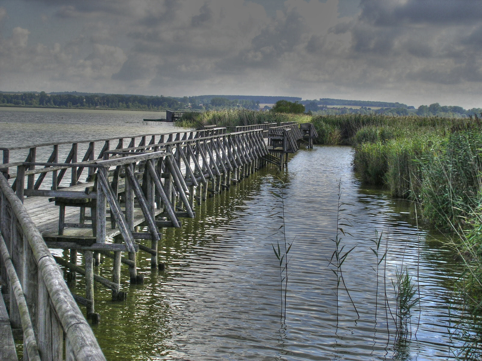 Federsee nature reserve at Bad Buchau, near Biberach an der Riss in South-West Germany